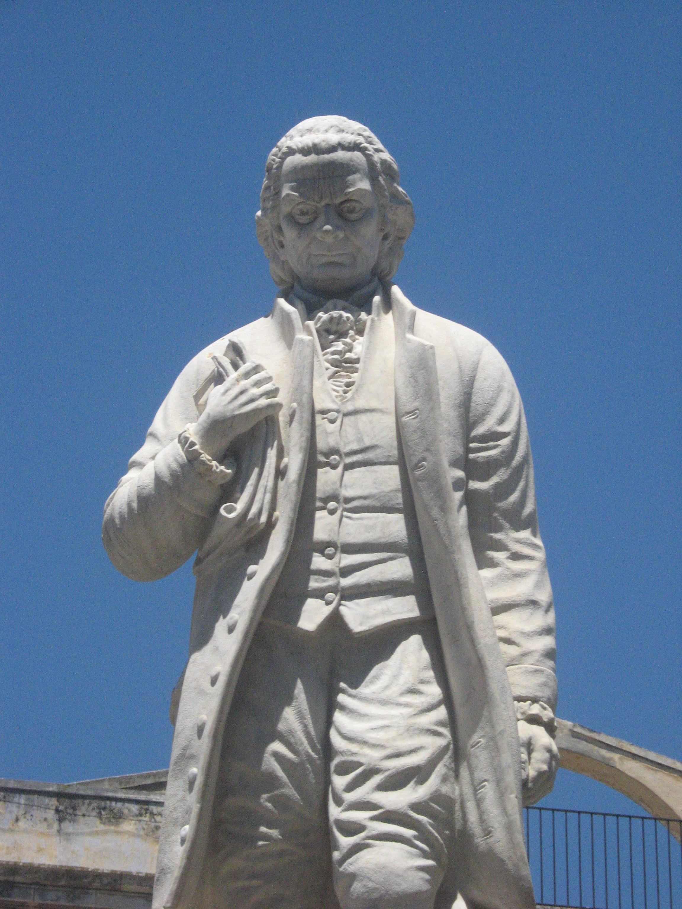 Statue of Domenico Cotugno in Cavallotti Square from Ruvo di Puglia